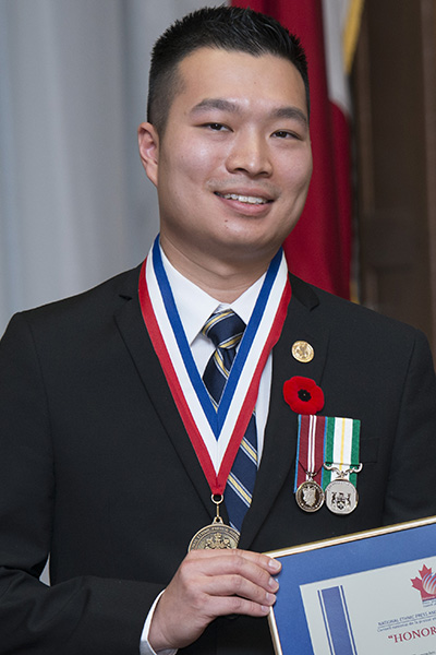 Paul Nguyen receiving an award inside the Lieutenant Governor's Suite at the Ontario Legislative Building.